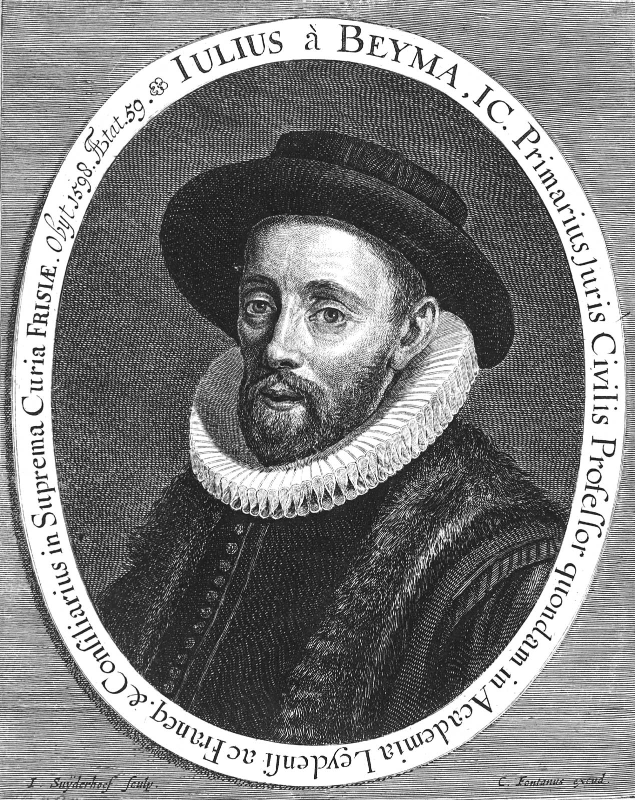 Julius van Beyma (1542-1598) Dutch jurist